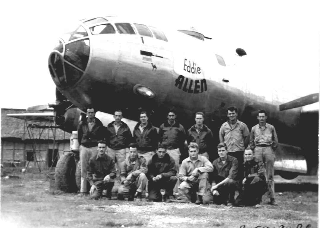 45th Bombardment Squadron Boeing B-29-40-BW Superfortress 42-24579 "Eddie Allen" of the 45th Bomb Squadron, 40th Bomb Group, XX Bomber Command. Aircraft condemned, battle damage, West Field, Tinian, Mariana Islands, 1 June 1945 This plane was named after Eddie Allen, a chief test pilot at Boeing Aircraft Co., Wichita, Kansas, who built and presented the plane to the Army Air Forces, The test pilot was killed in the second experimental B-29. left to right, back row: Major Ira V. Matthews, Lafayette, Alabama, pilot; 1st Lt. Robert A. Winters, Wichita, Kansas, co-pilot; 1st Lt. Herbert C. Hirschfeld, navigator, Chicago, Illinois; 2nd Lt. Charles Behrle, bombardier, New Haven, CT; Flight Officer Louis F. Grace, engineer, S/Sgt John J. Mahli, crew chief, Ambridge, Pennsylvania, Sgt. Claude L. Bolin of Newton, Kansas, assistant crew chief. Left to right, front row: T/Sgt Fred H. Thompson, Ft. Worth, Texas, radio operator; S/Sgt S. V. Sienkiewicz, Cook County, Illinois; S/Sgt L. E. McBride, Springfield, Massachusetts; S/Sgt. Samuel P. Winborne, top turret gunner, Raleigh, NC and Powers.